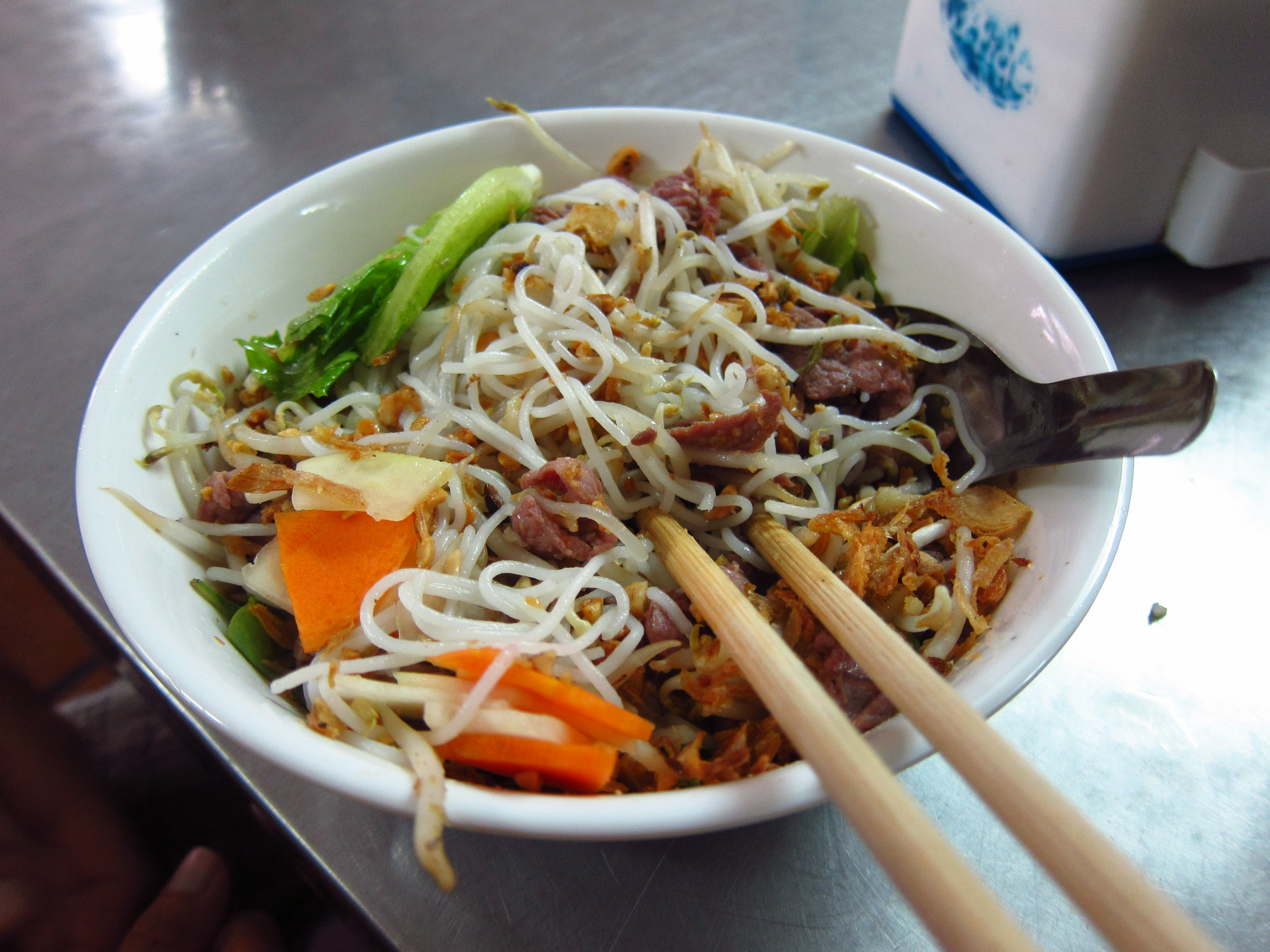 Vietnamese bun bo nam bo (beef, noodle and vegetables salad) in Hanoi.